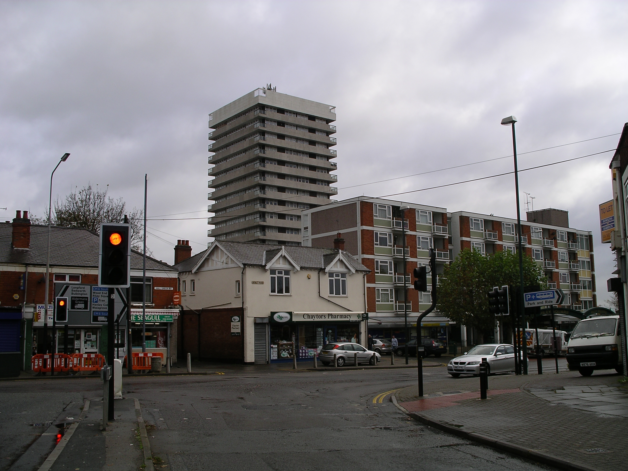 Photo of the T junction in Bell Green, Coventry. The photo is taken from Bell Green Road and shows Henley Road and Hall Green Road.